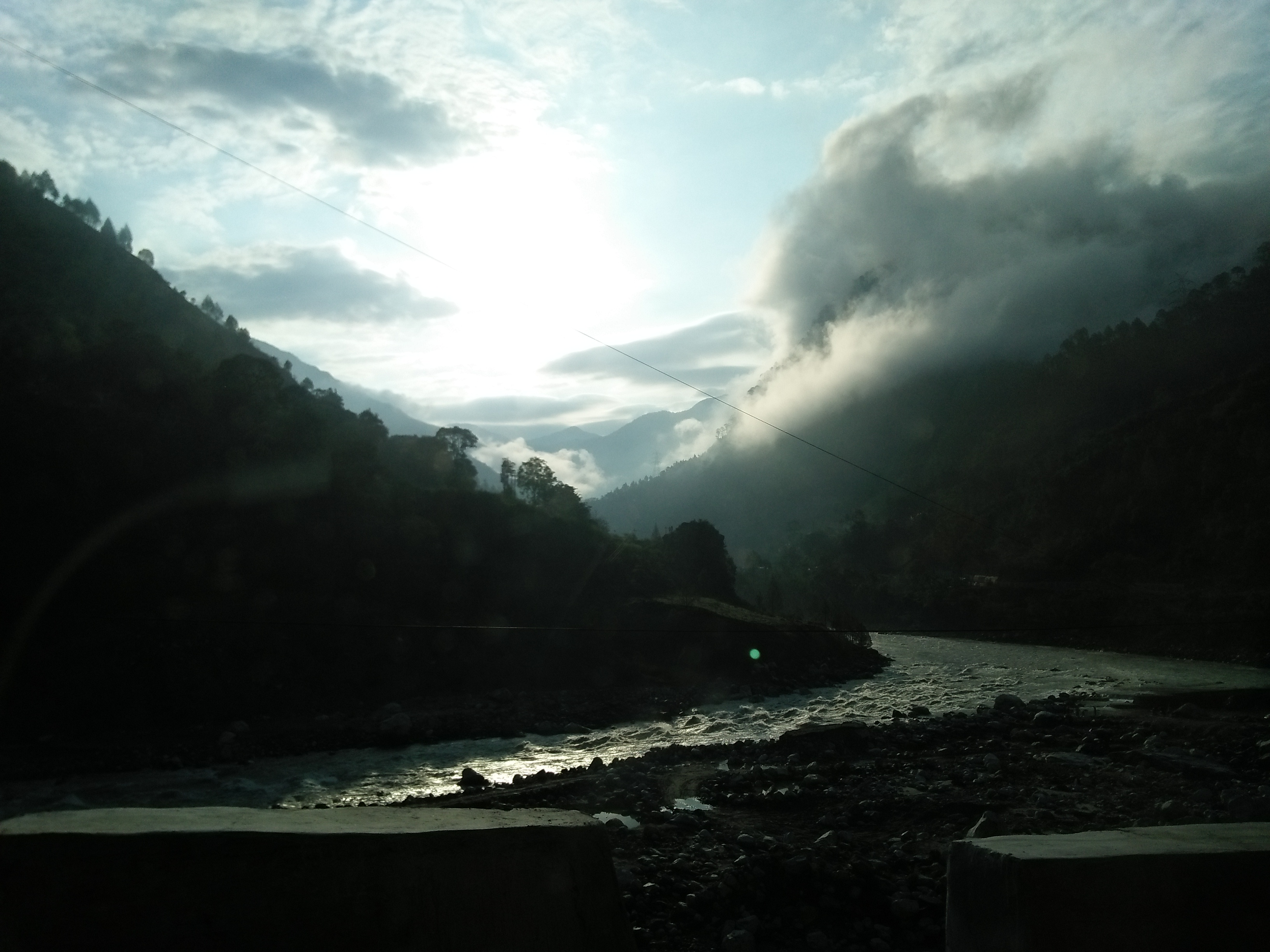 It's an incredible shot of uttarakhand